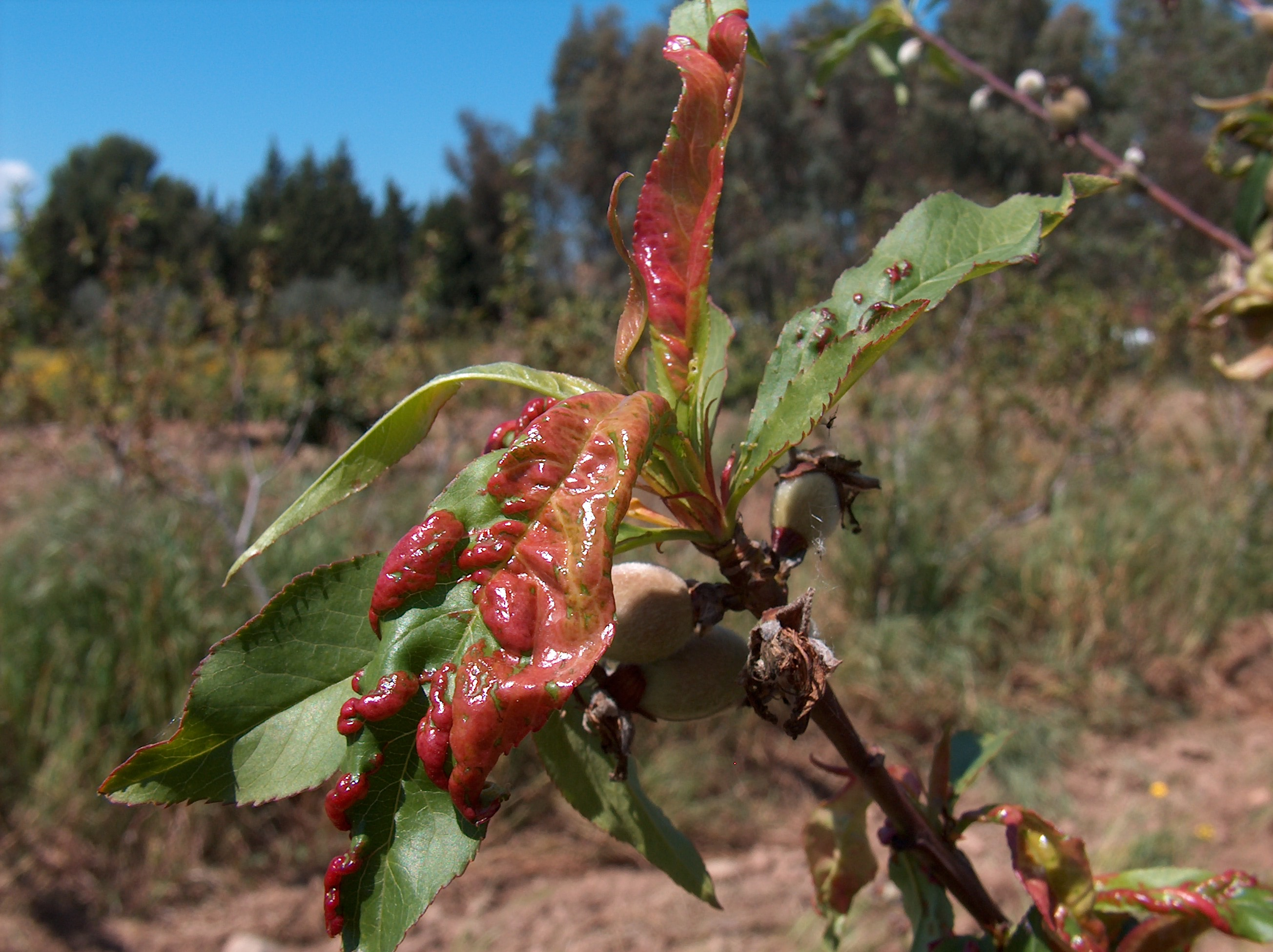 Peach leaf curl by Taphrina deformans (from Professional Institute of Agriculture and Environment "Cettolini" Villacidro, Italy)